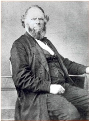 Photograph of George Myers (1803–1875)